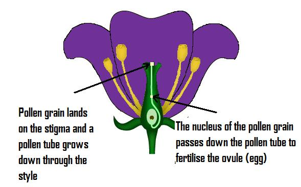 self polination